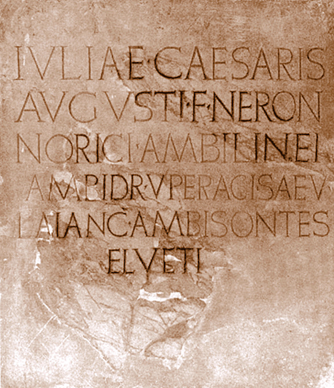 One of the three honorary inscriptions of Magdalensberg at St. Veit an der Glan in Carinthia / Austria / European Union from the time of Emperor Augustus.